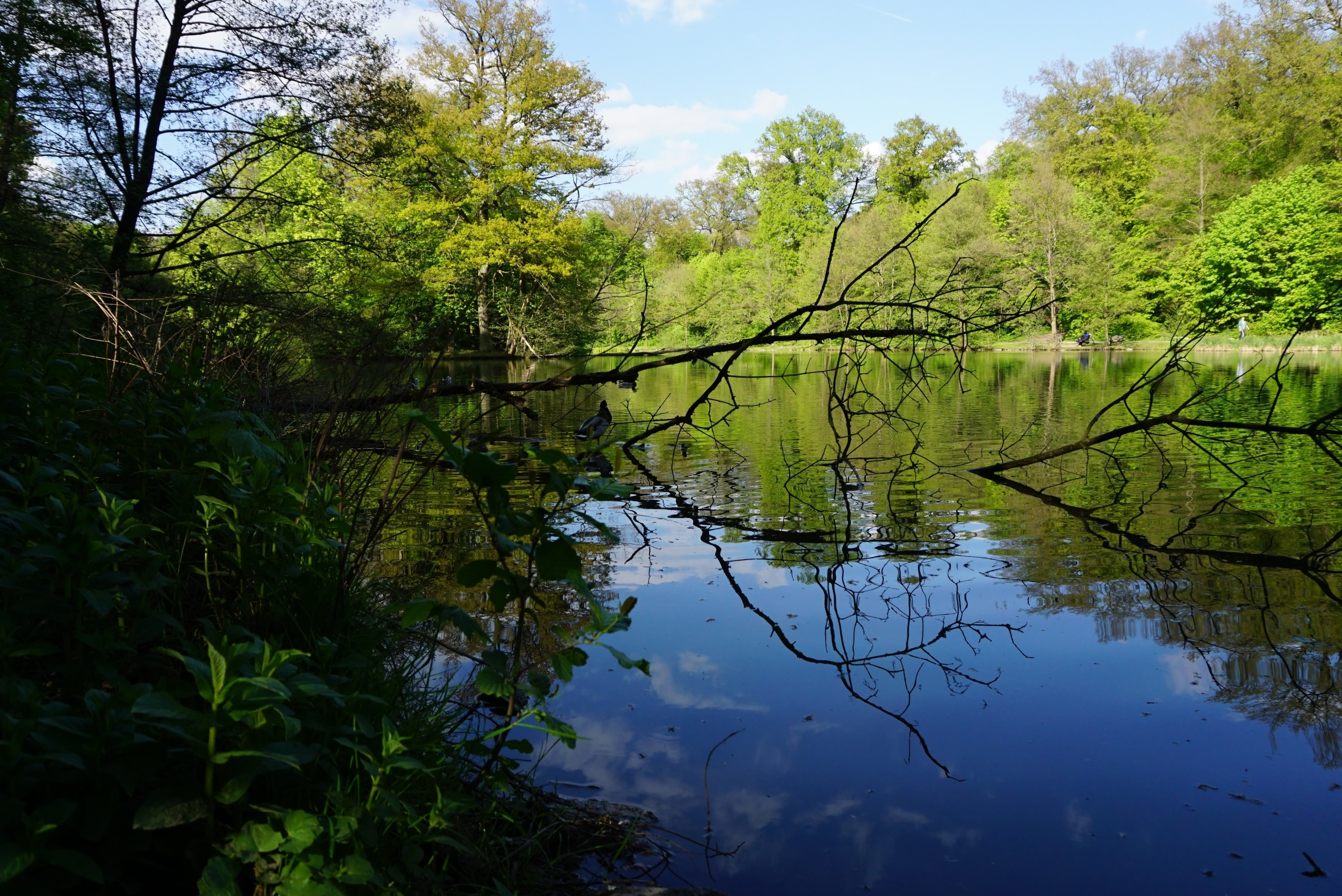 A view on the Ententeich lake in the Fasanerie Aschaffenburg and the island in its middle. The lake is mirroring the blue sky as well as the foliage. On the left hand side some dead branches are partially sunk in the water; a duck is standing one of the branches. This is a slightly different perspective of File:Fasanerie_Aschaffenburg_Apr_2017_7.jpg